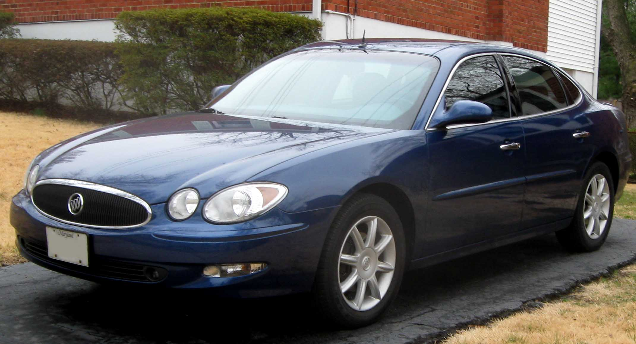 2006-2007 Buick LaCrosse photographed in Rockville, Maryland, USA.